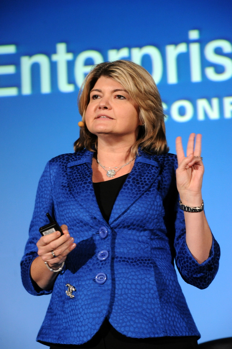 Sandy Carter Vice President, Social Business Evangelism and Sales, IBM